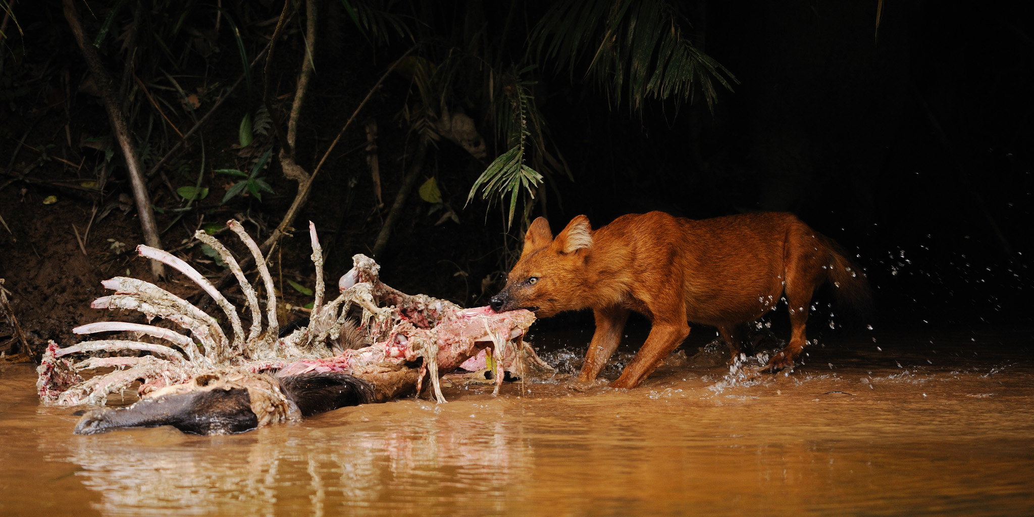 Dhole or Asian Wild Dog, Cuon alpinus on Sambar deer kill in Khao Yai national park. Photo by